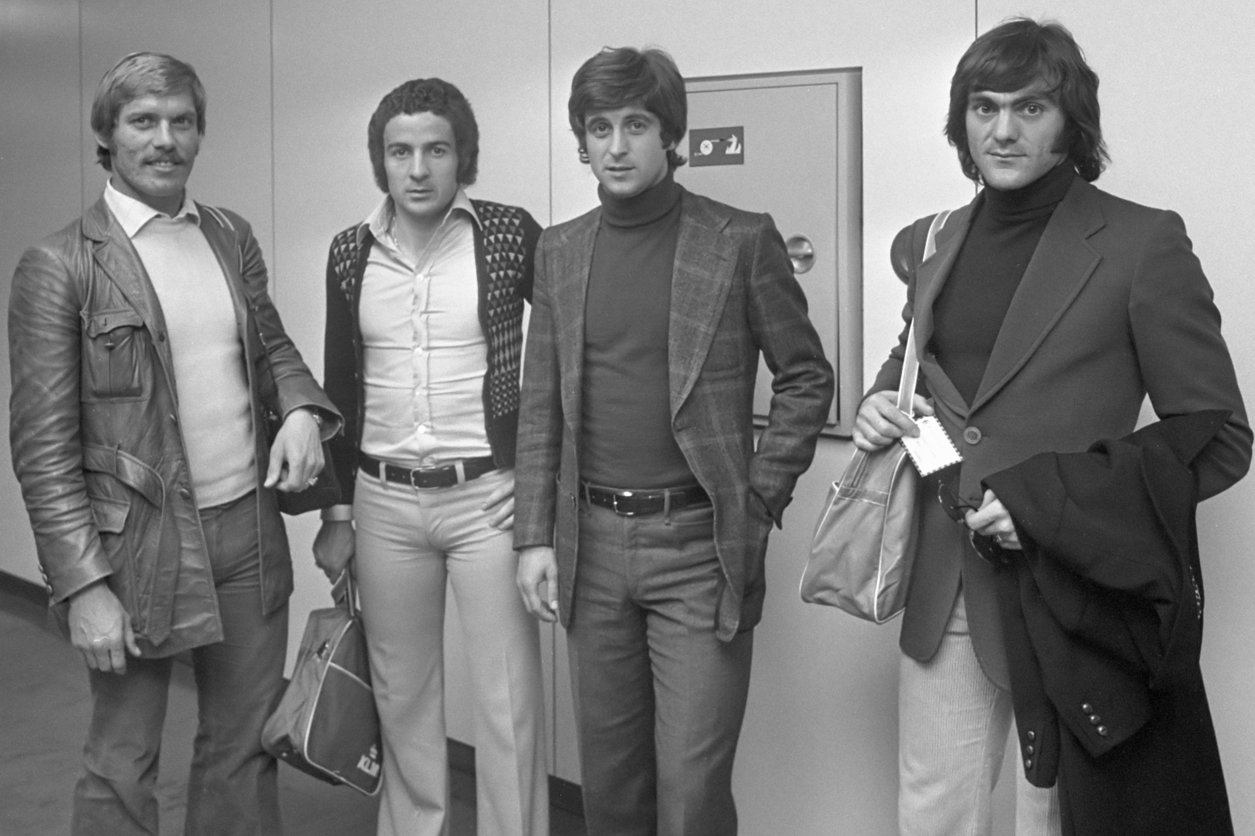 Players of AC Milan at Amsterdam Schiphol airport: from left to right Romeo Benetti, Luciano Chiarugi, Gianni Rivera and Giuseppe Sabadini